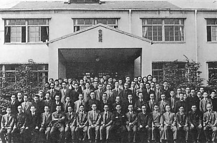 Planning Board of Japan